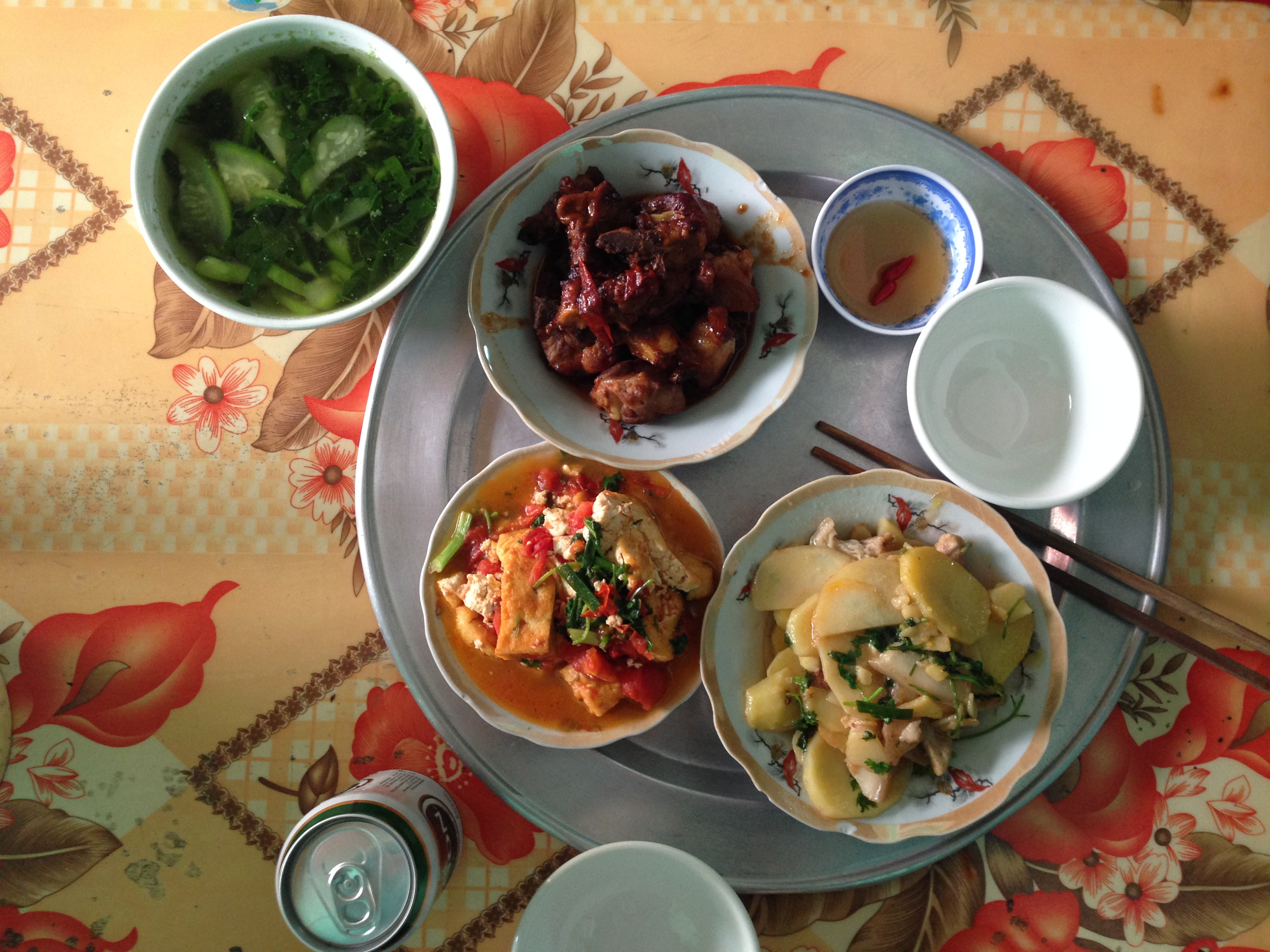 A modern daily Vietnamese meal presented on an aluminium round tray. From top left to right: vegetarian soup of Basella alba and Lagenaria, sweet and sour pork ribs, small bowl of fish sauce (with red chili), empty bowl for rice, Stir-fry potatoes, tofu in tomato sauce. A can of beer (or drink) is optional, normally for a man in summer.